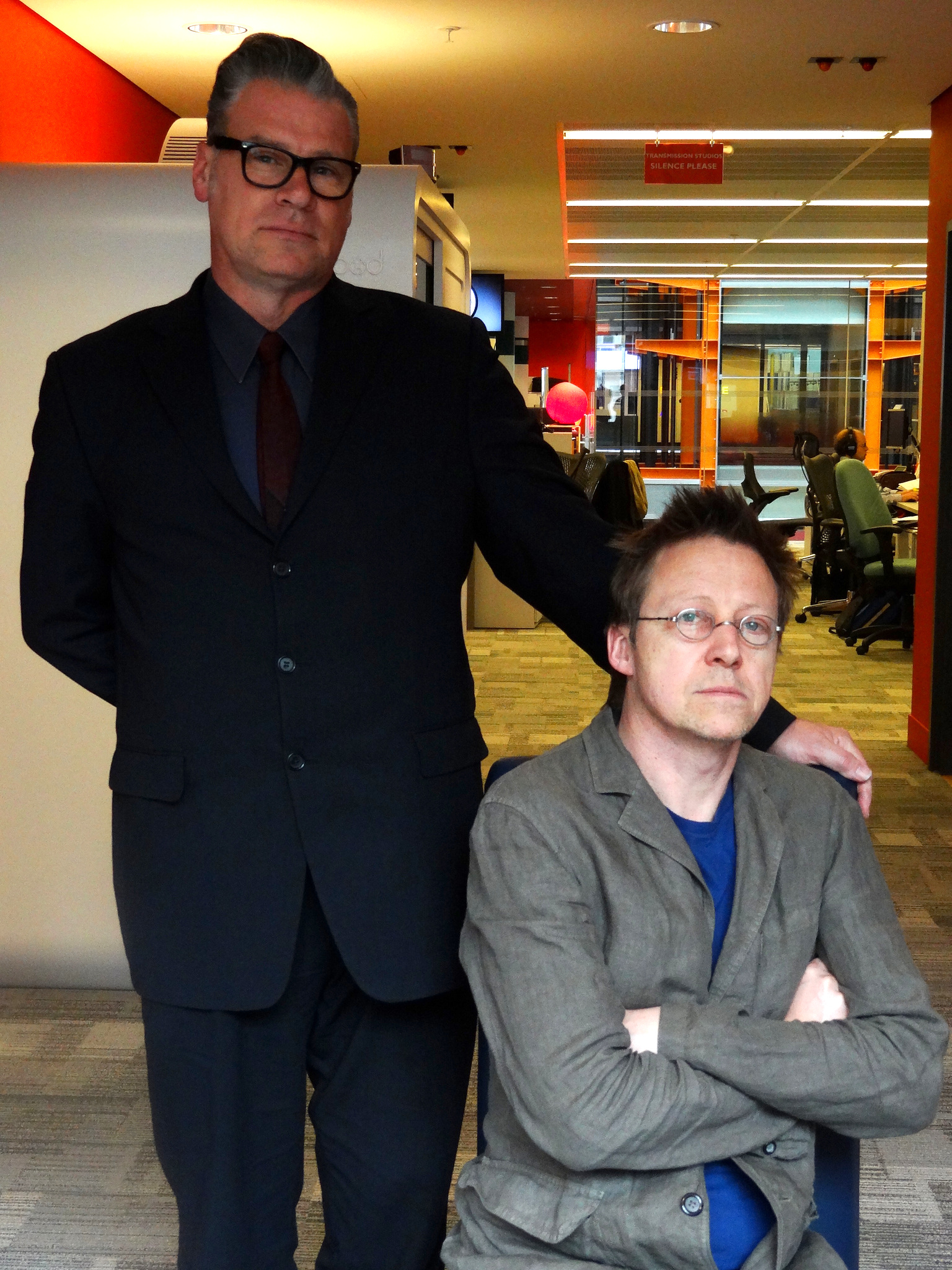 Wittertainment. Mark Kermode and Simon Mayo. Levels adjusted.